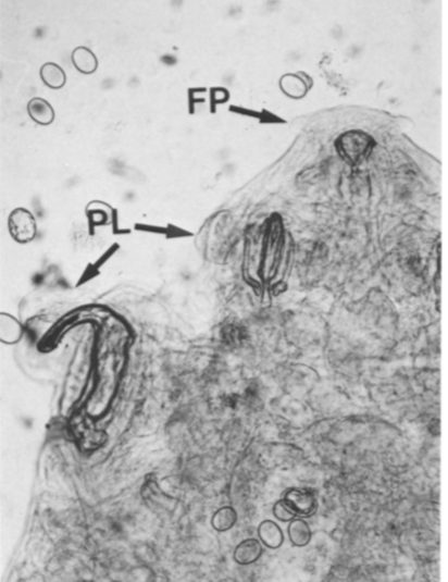 This is the cephalothorax of a female R. Teagueselfi. The mouth on the anterior end of its mouth is bordered with domed frontal papillae and its hooks are bordered with parapodial lobes.